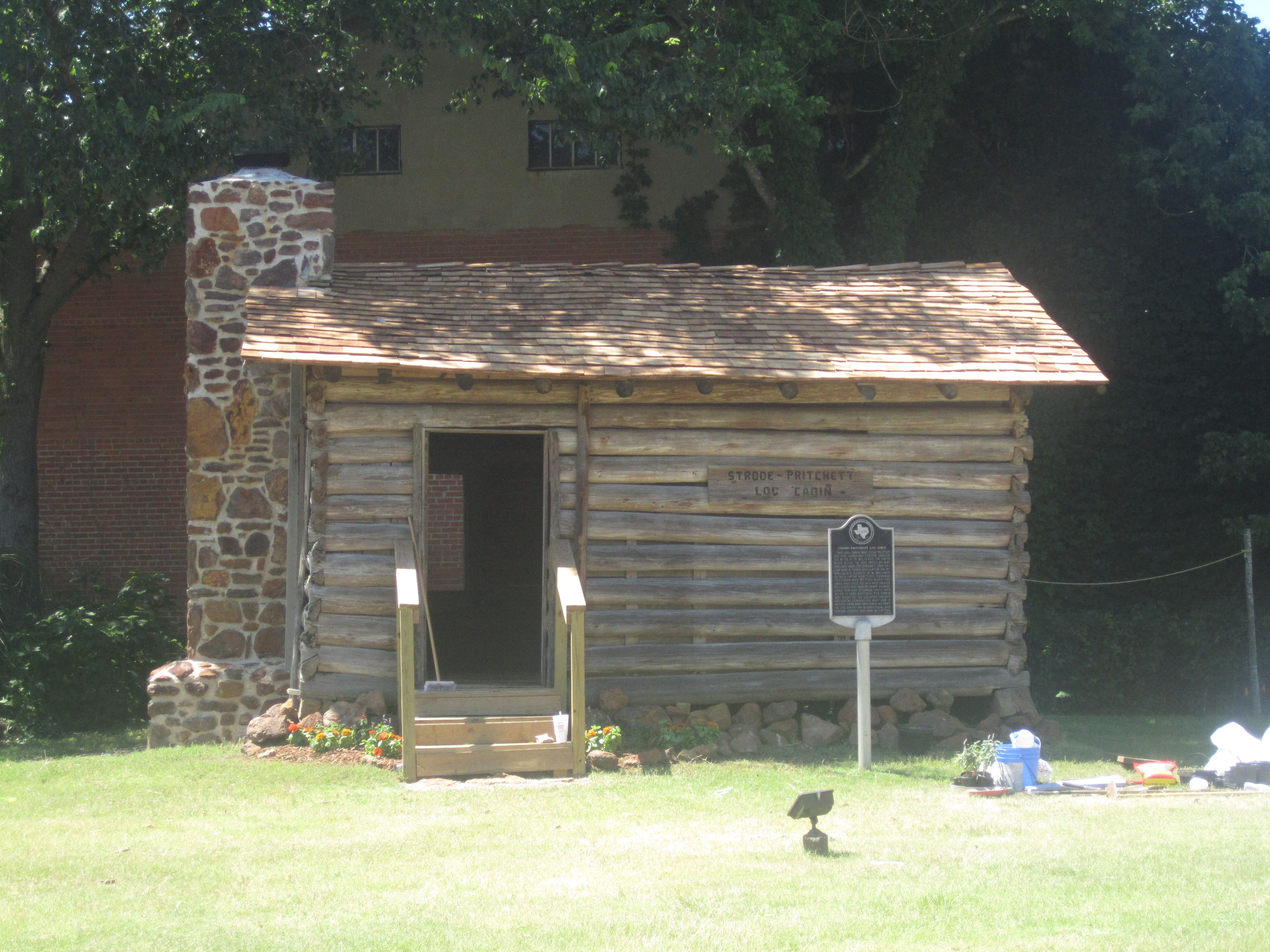 I took photo on June 1, 2012, with Canon camera, of Strode-Pritchett House in Crockett, TX. Billy Hathorn (talk) 18:18, 28 June 2012 (UTC)